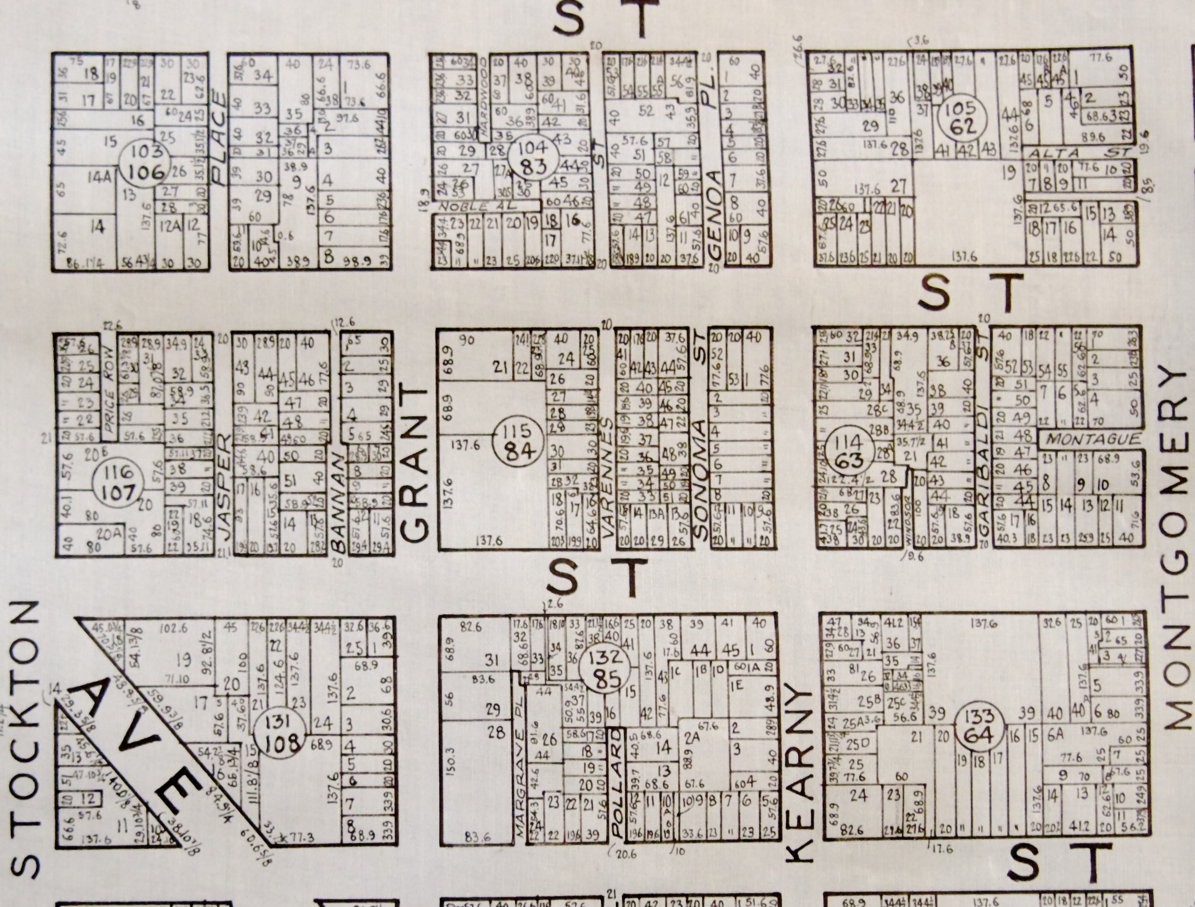 1920's detail of downtown San Francisco. This is in the 50 Vara district. A vara is a unit of measure (Spanish) about 33 inches. Street blocks are composed of three 50 vara units long by two 50 vara units wide.